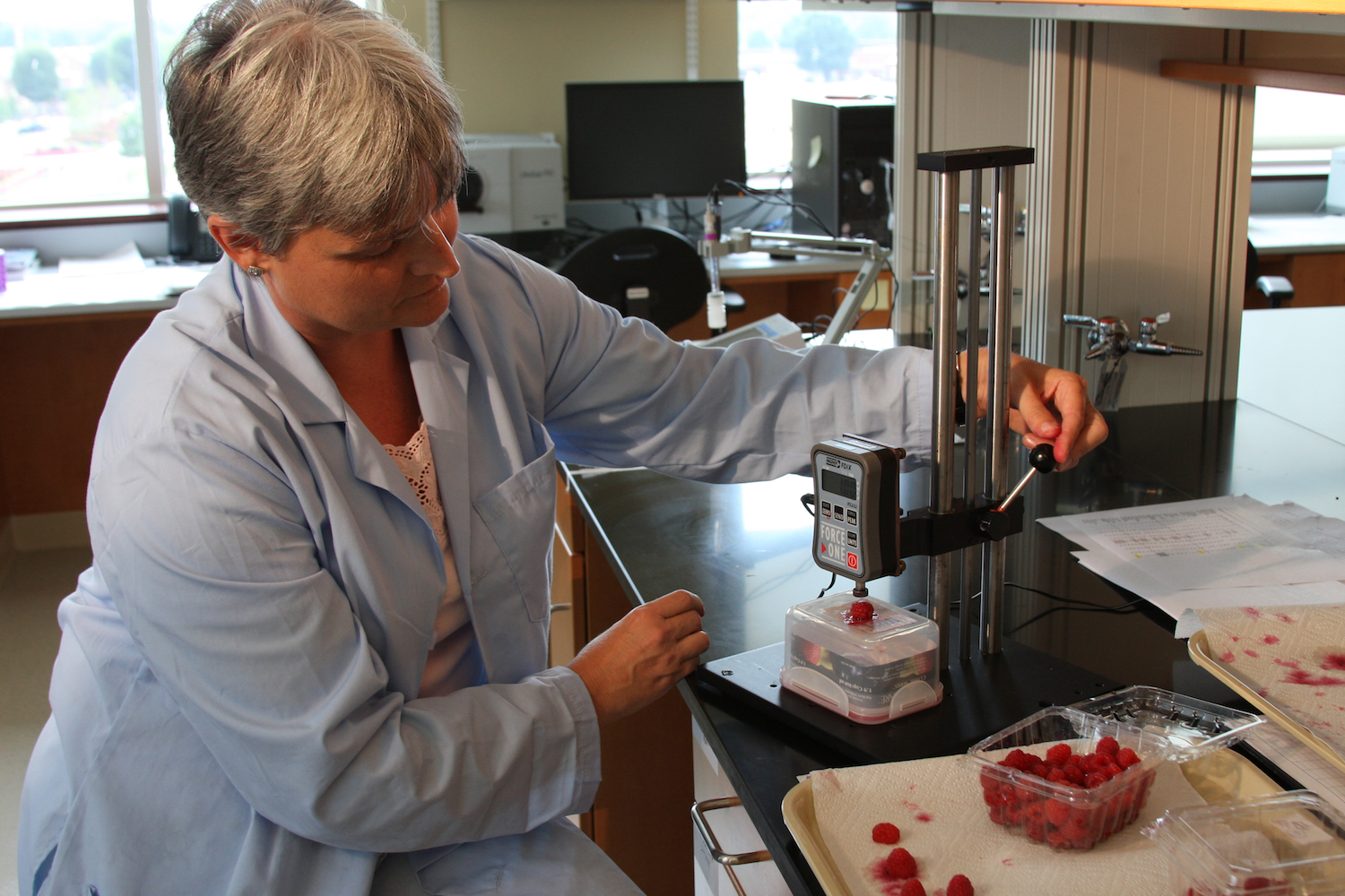 Dr. Penelope Perkins-Veazie is a postharvest physiologist with N.C. State University's Plants for Human Health Institute, based at the N.C. Research Campus in Kannapolis, N.C.